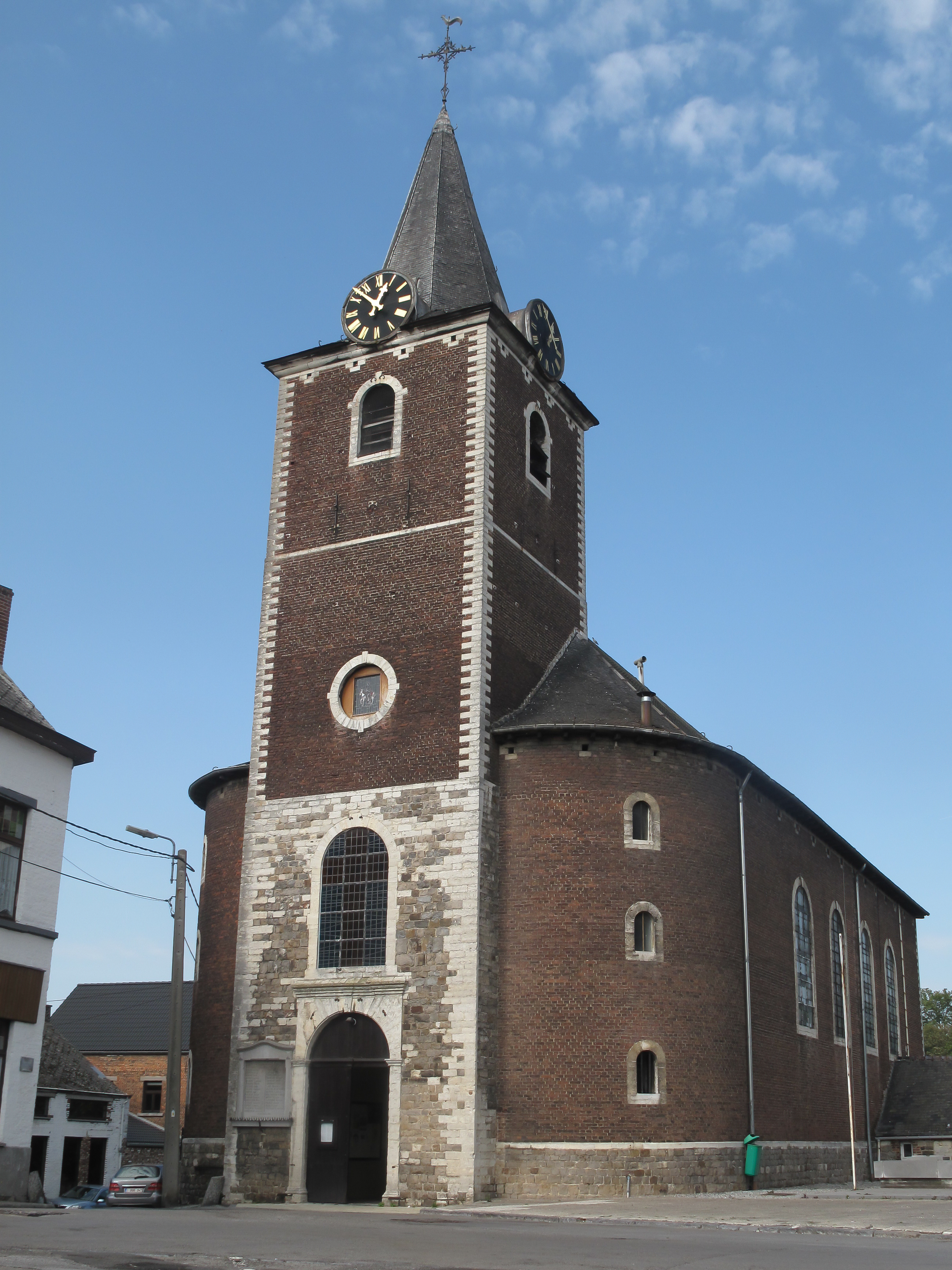 Jauche, church: église Saint Martin